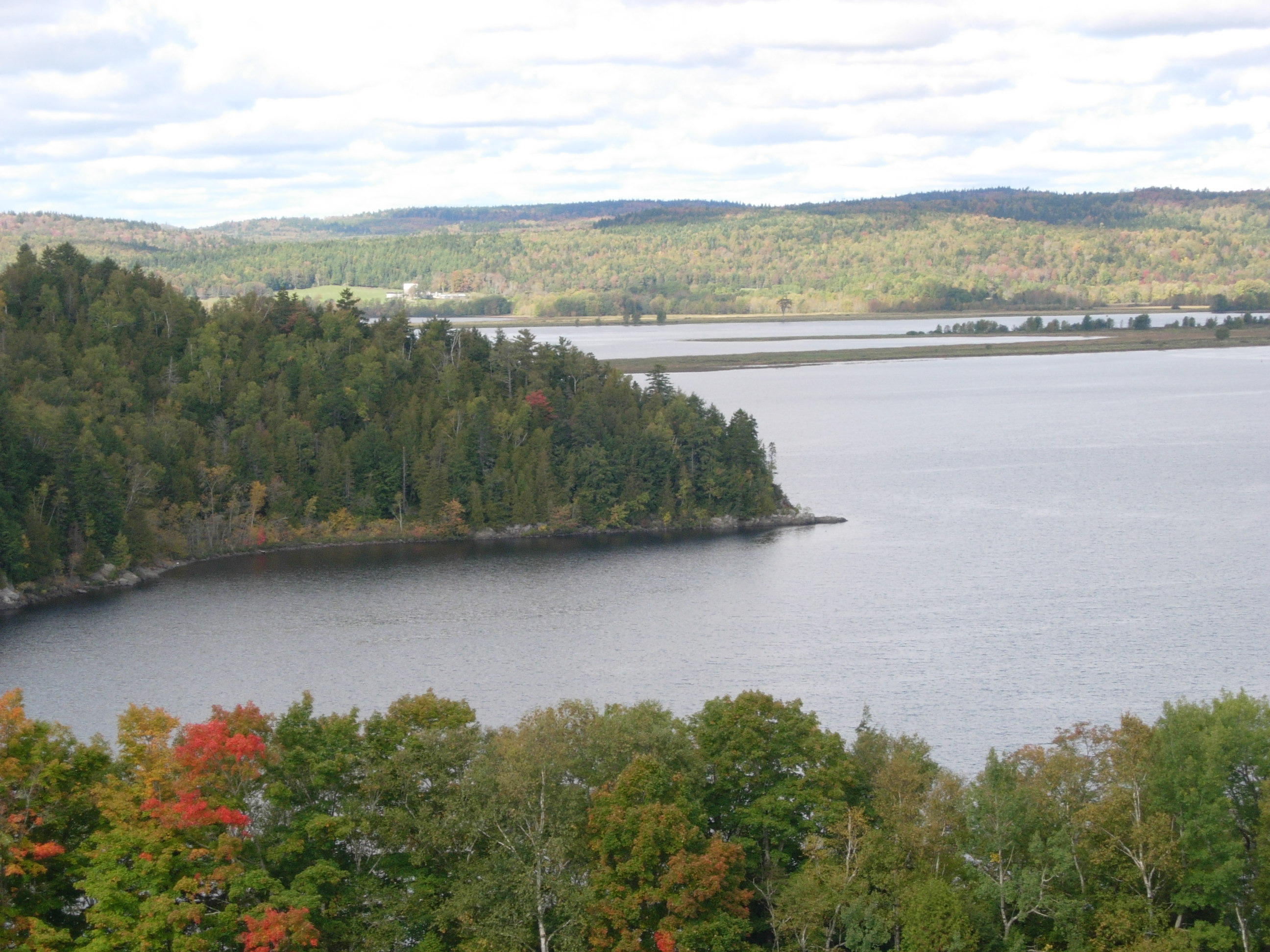 Near Kingston, Kingston Island, NB, Canada